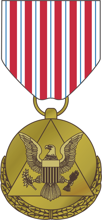 Army Institute of Heraldry link] The Outstanding Civilian Service Award is the third highest honor within the Department of the Army Civilian Awards scheme, that the United States Department of the Army can bestow upon a private citizen